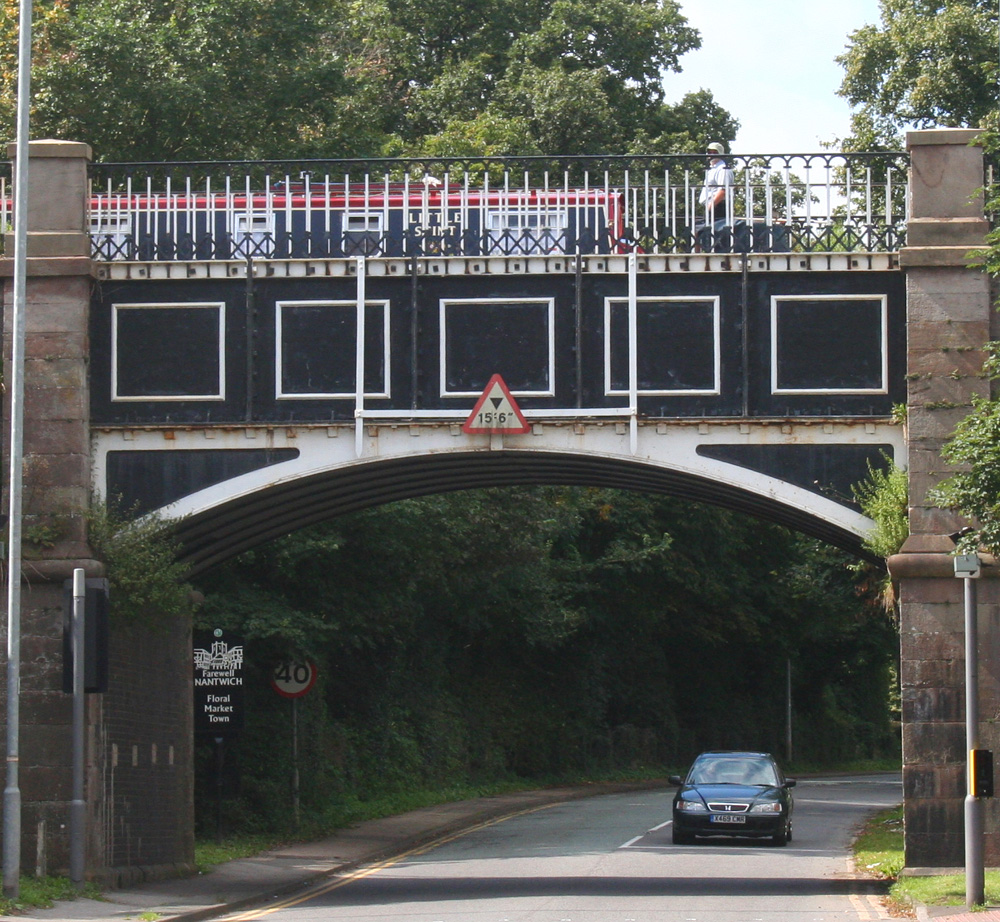 Nantwich Aqueduct, Chester Road, Nantwich, Cheshire (cropped version of Image:Nantwich Aqueduct Chester Rd.jpg)